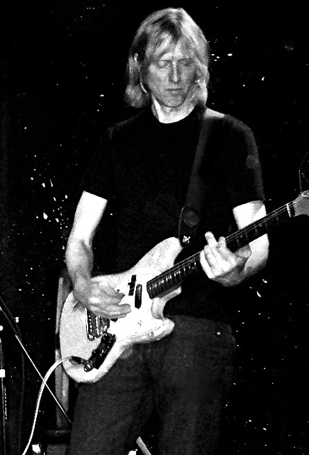 Eric Erlandson performing with the band Hole in 2012, in Brooklyn, New York.